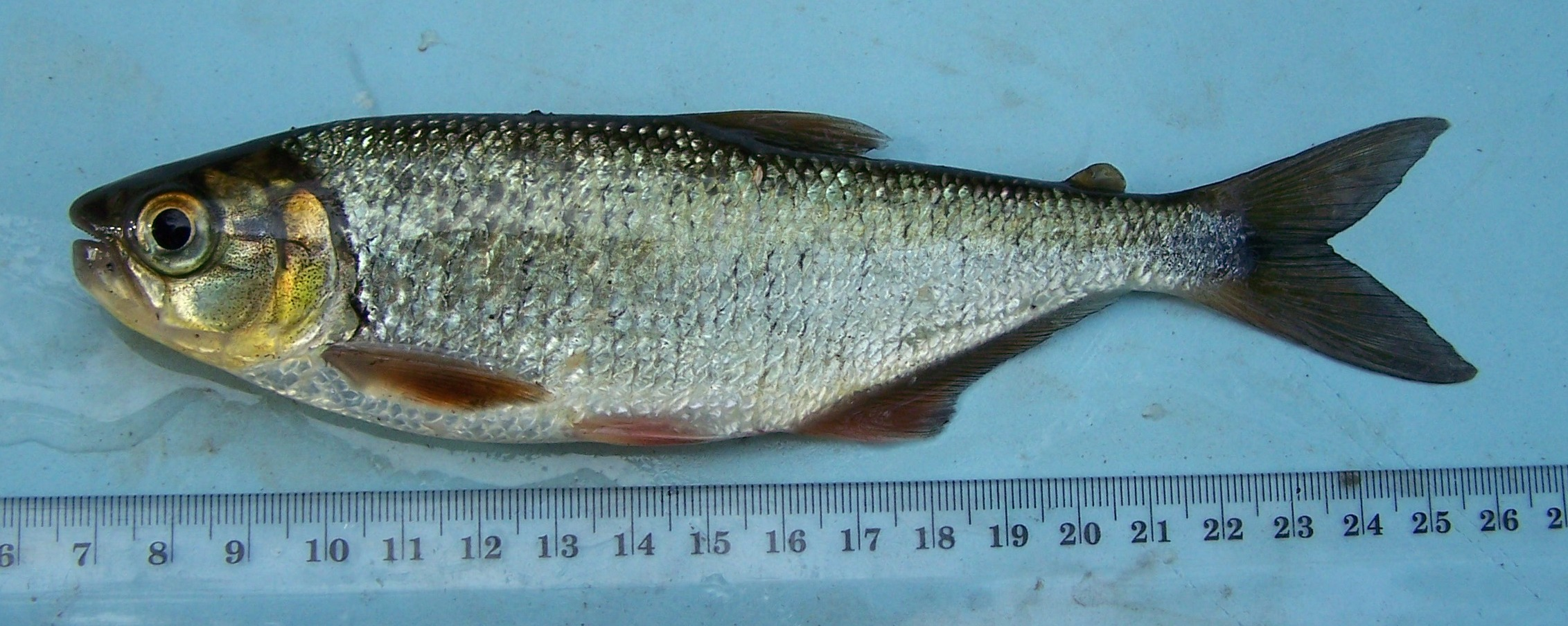 Sabalo or machaca captured in the Guanacaste Province of Costa Rica.